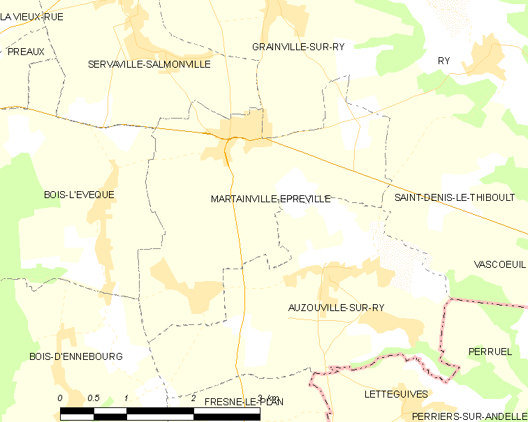 Map of French municipality Martainville-Épreville